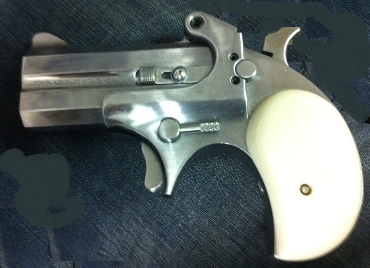 Bond Arms Cowboy Derringer with ivory grips